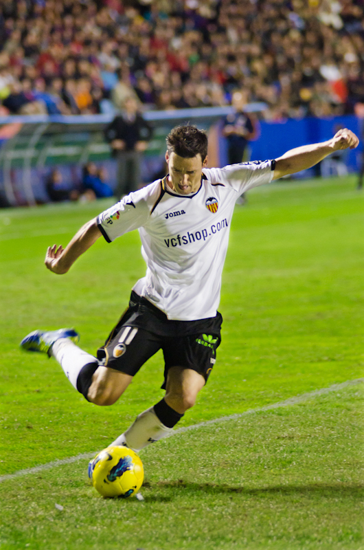 Basque-Spanish football player Aritz Aduriz while playing for Valencia CF.